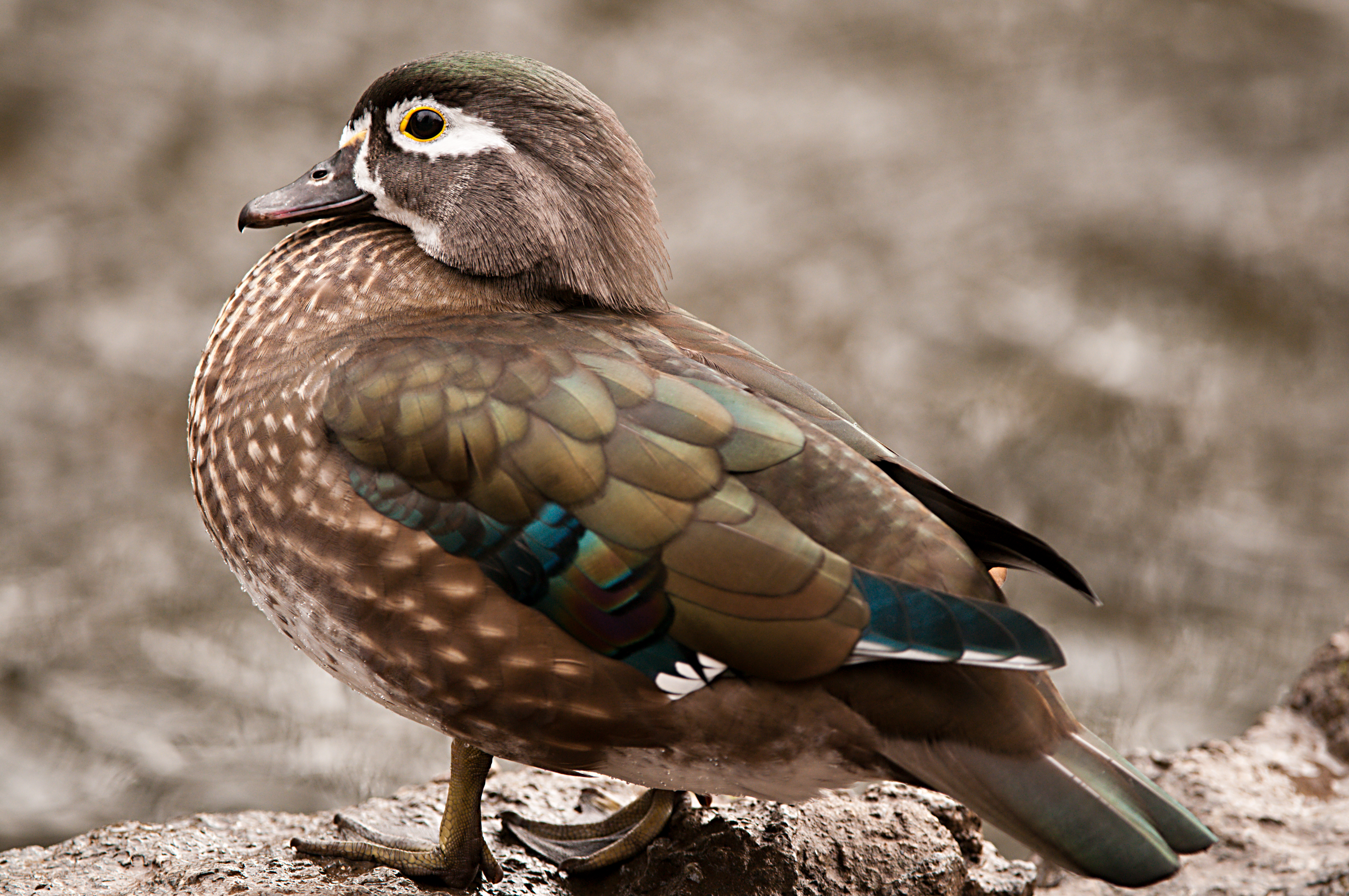 A female Wood Duck at Crystal Springs Rhododendron Garden, Portland, Oregan, USA.